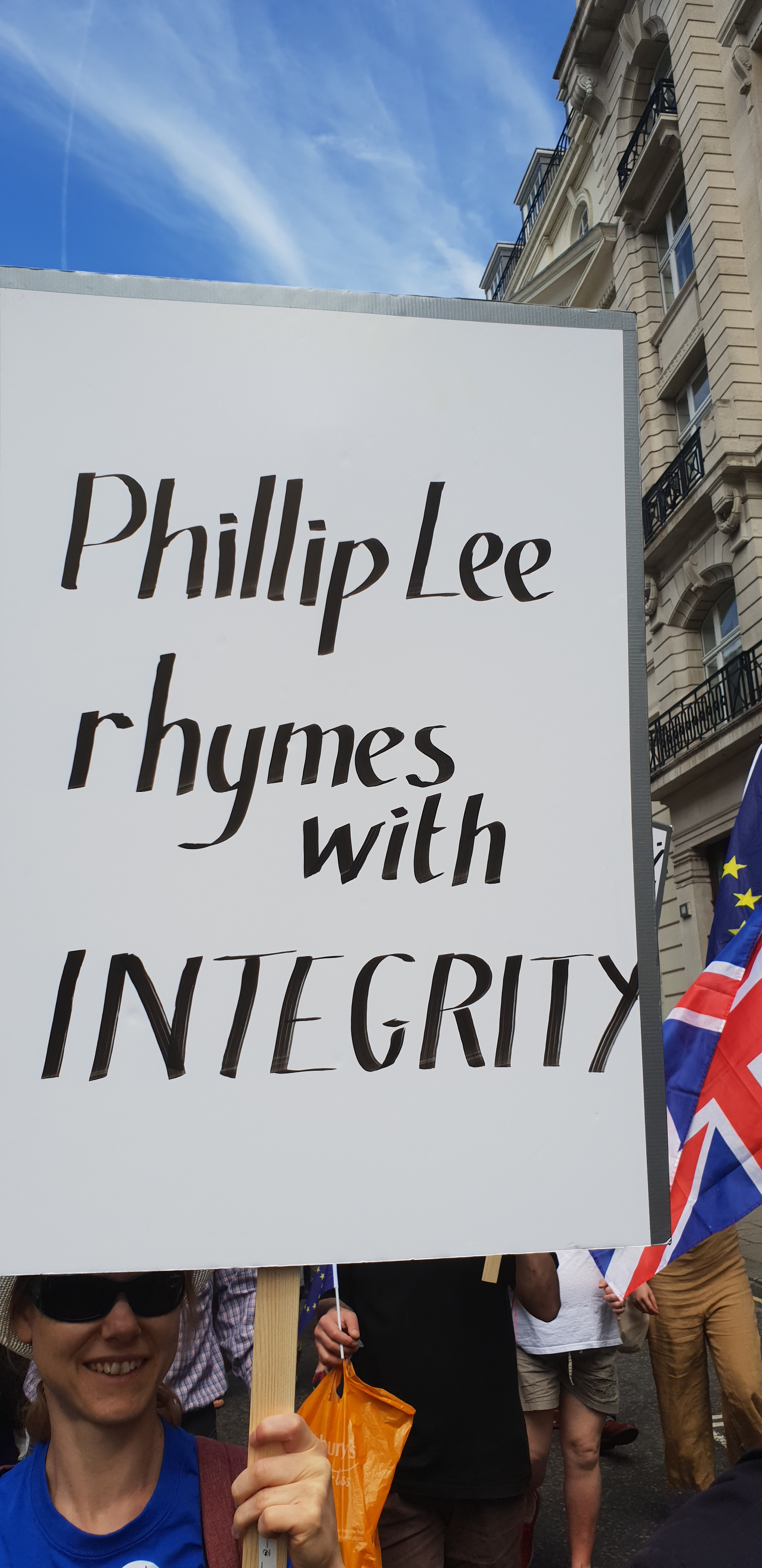 Some of the more than 100,000 marchers at the PeoplesVote march through Whitehall, 23 June 2018. Phillip Lee is the MP for Bracknell who resigned his ministerial post in order to better speak up for my constituents and country over how Brexit is currently being delivered.